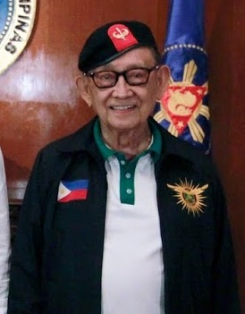 THEN AND NOW. President Rodrigo R. Duterte (center) poses with former President and Manila Mayor Joseph E. Estrada (left), former President and Pampanga Representative Gloria Macapagal-Arroyo (2nd from left), former President and Special Envoy to China Fidel V. Ramos (2nd from right), and former President Benigno S. Aquino III (right), before the start of the National Security Council (NSC) meeting at the State Dining Room of the Malacañan Palace on July 27. REY BANIQUET/PPD